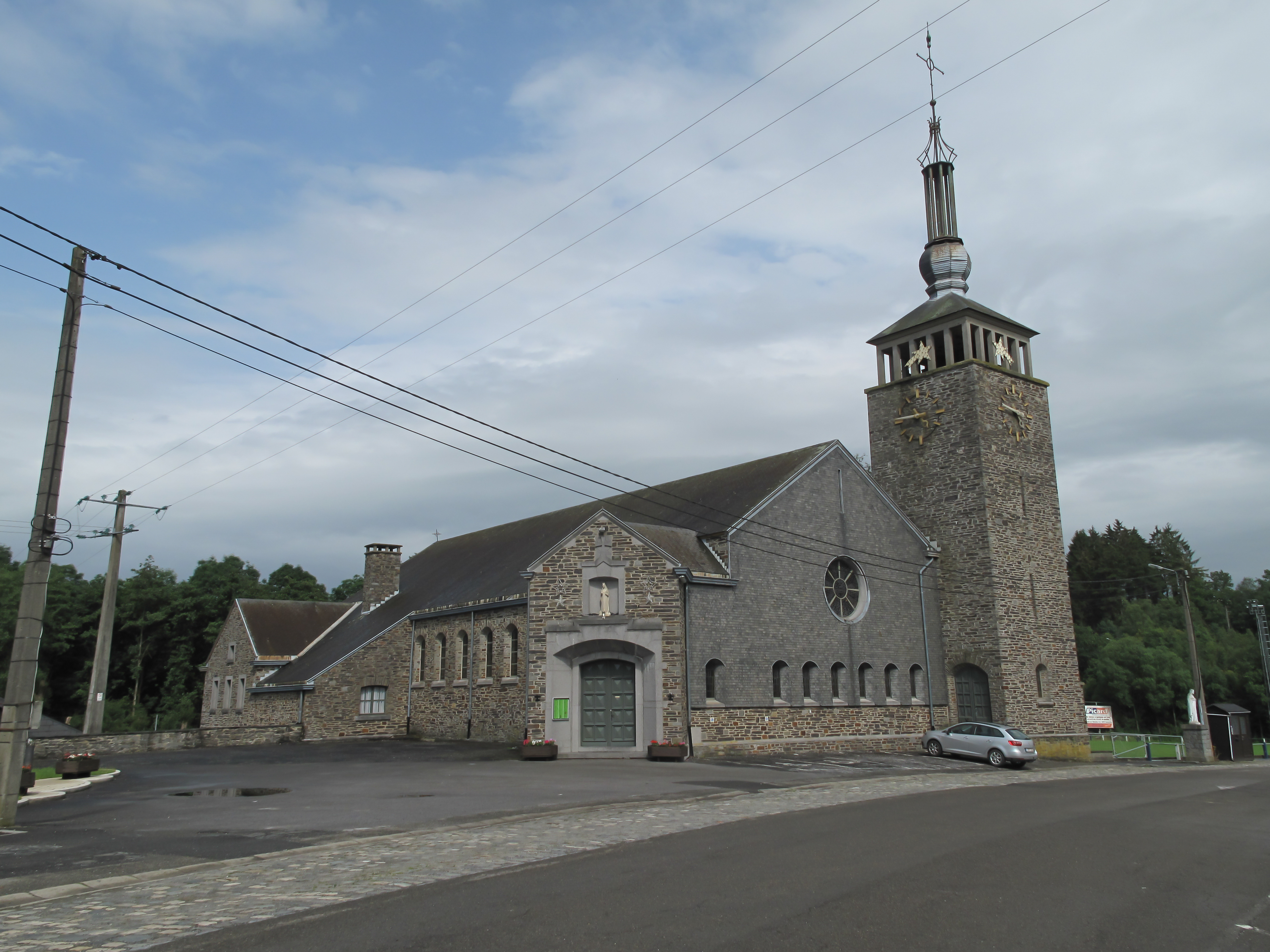 Tenneville, church: église Notre-Dame de Beauraing